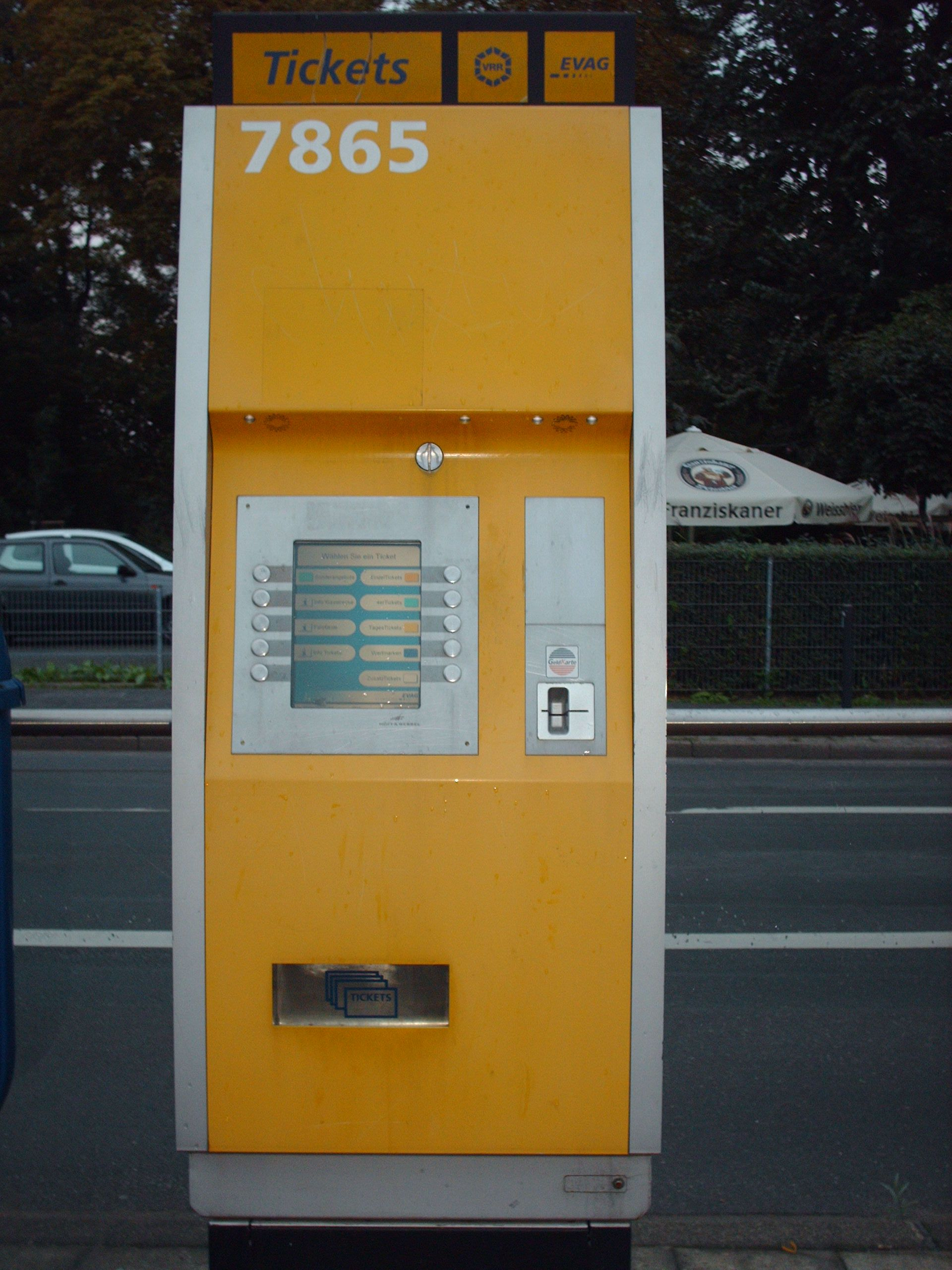 EVAG ticket machine, Essen, Germany check usage